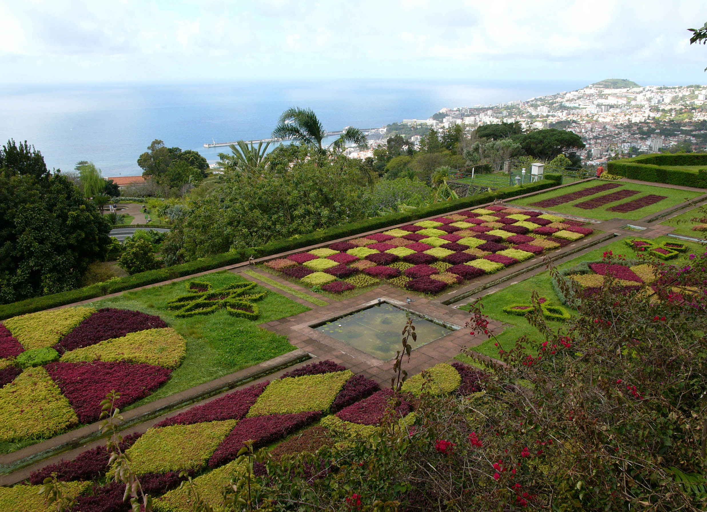 Botanical garden on Madeira with Funchal in the background